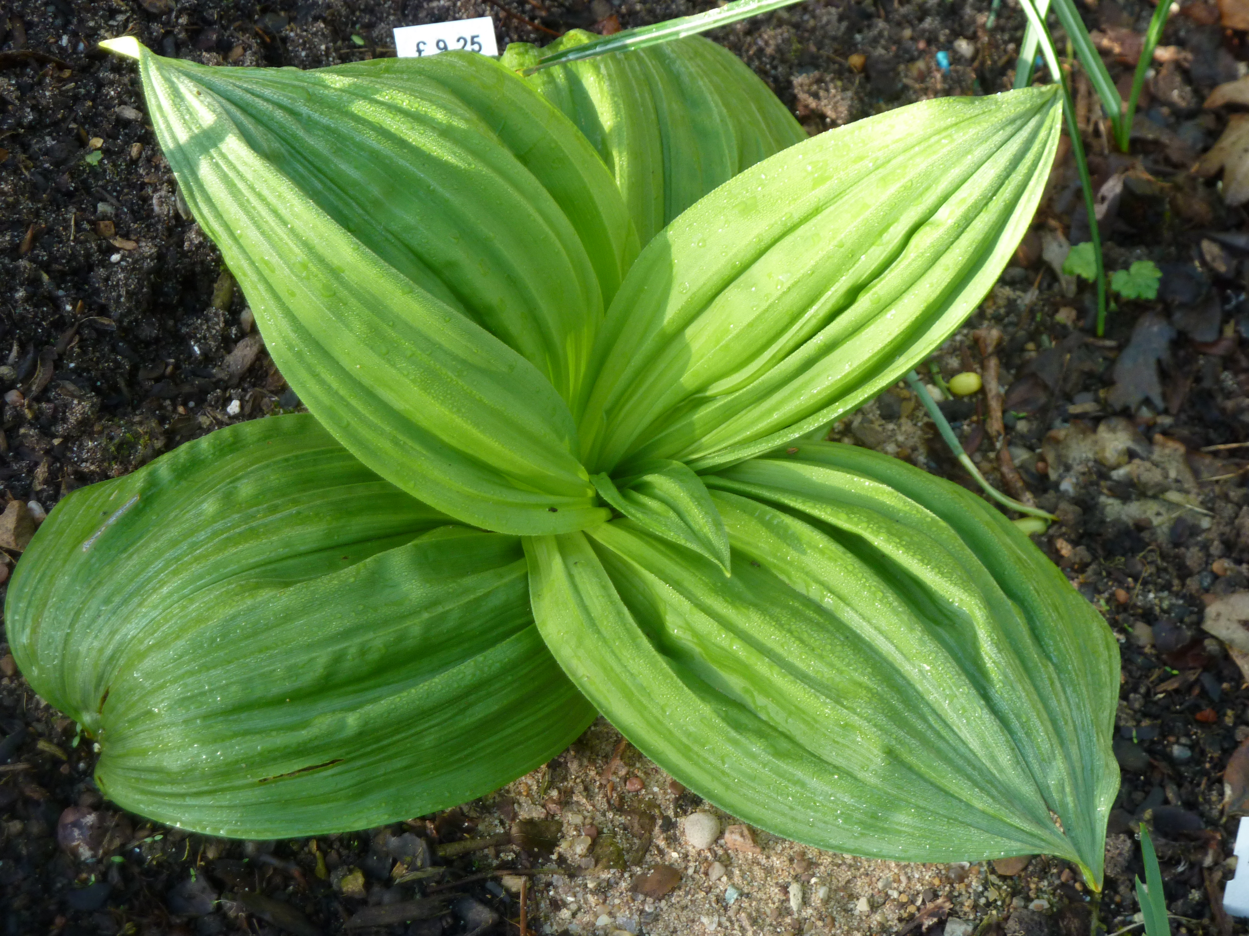 This one seems to have completely avoided any slug damage which is very gratifying.